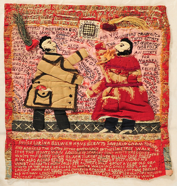 Lorina Bulwer was born in 1838 in Beccles. Her father was William John Bulwer and Ann (born Turner). She was placed in a workhouse at Great Yarmouth at the age of 55 and there she created a niece of needlework. She died in 1912. This work is in Norwich Museum now